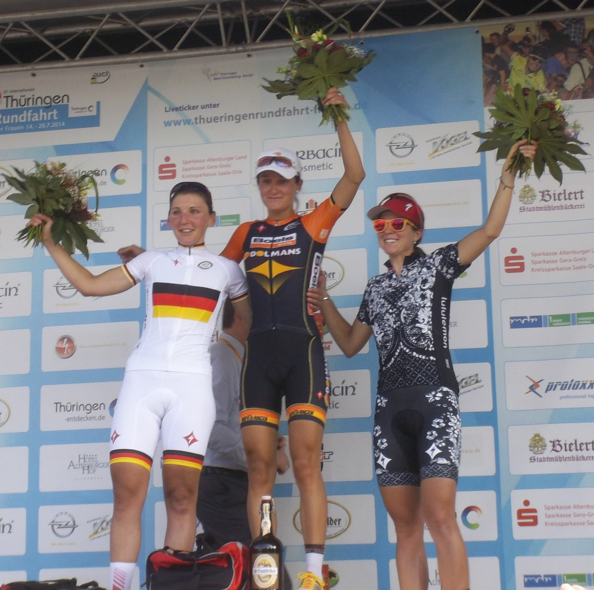 First stage podium Thuringen Rundfahrt 2014